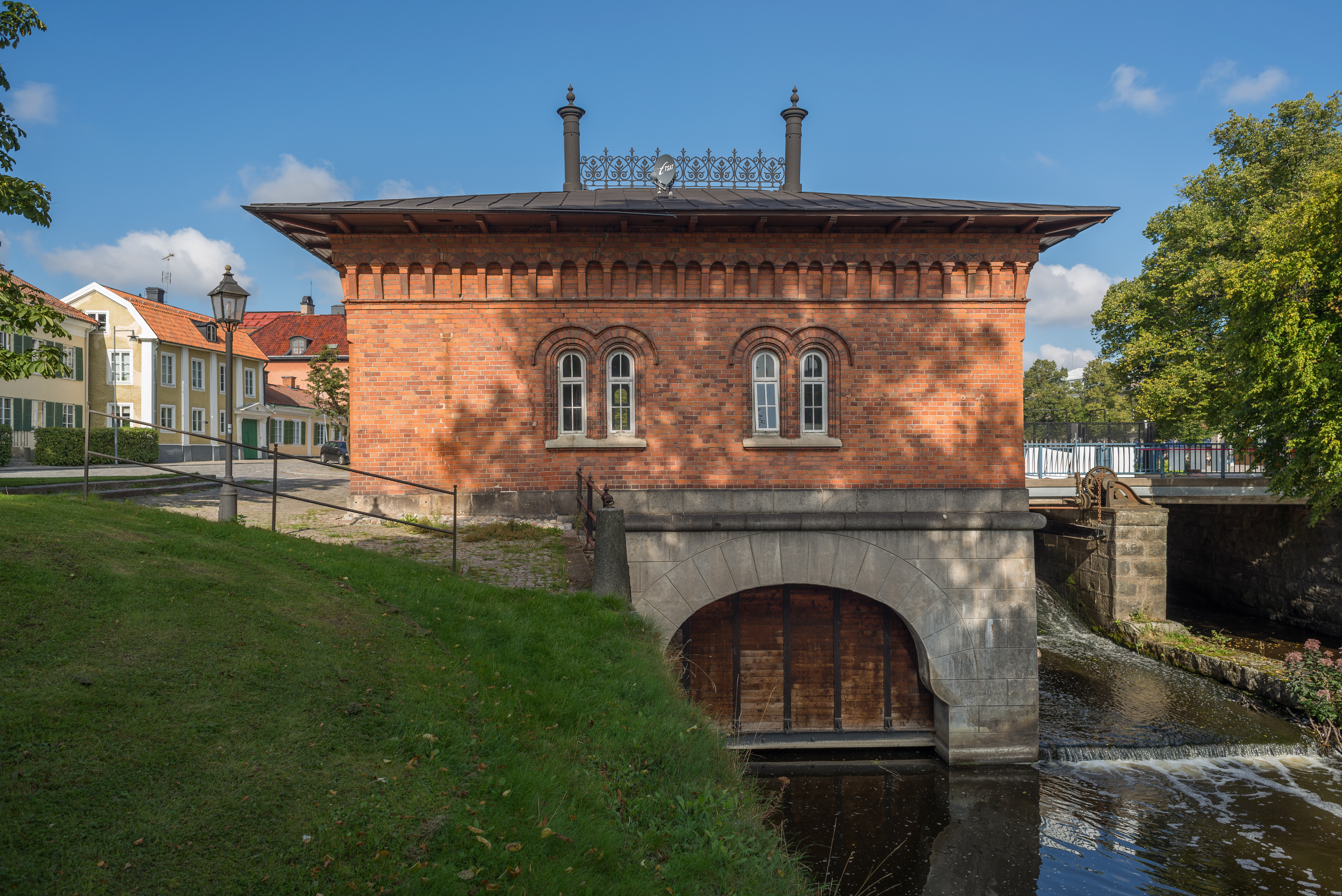 Turbinhuset (the turbine house). Västerås, Sweden.